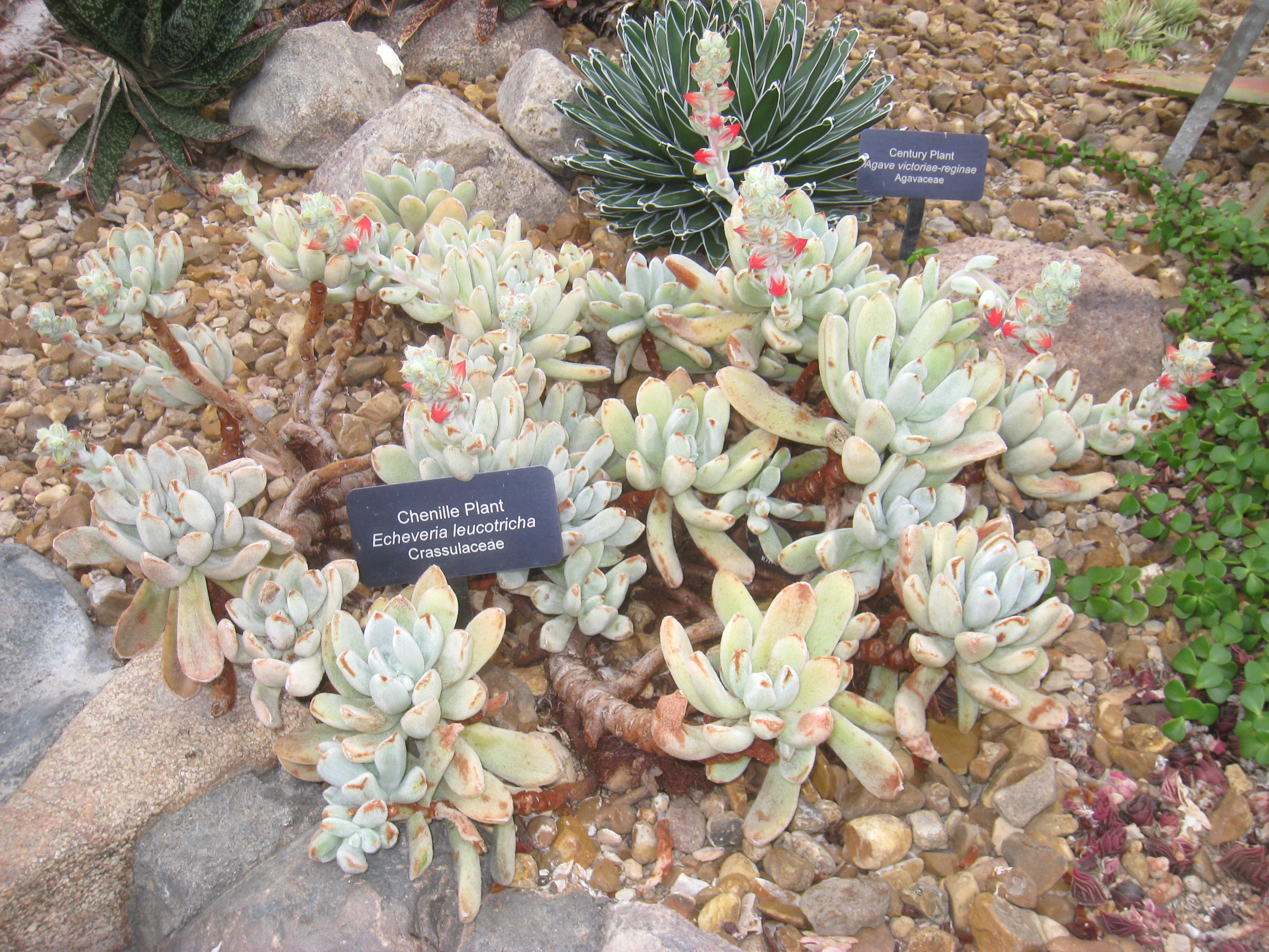 Echeveria leucotricha. Specimen in the conservatory - Matthaei Botanical Gardens, University of Michigan, 1800 N Dixboro Road, Ann Arbor, Michigan, USA.